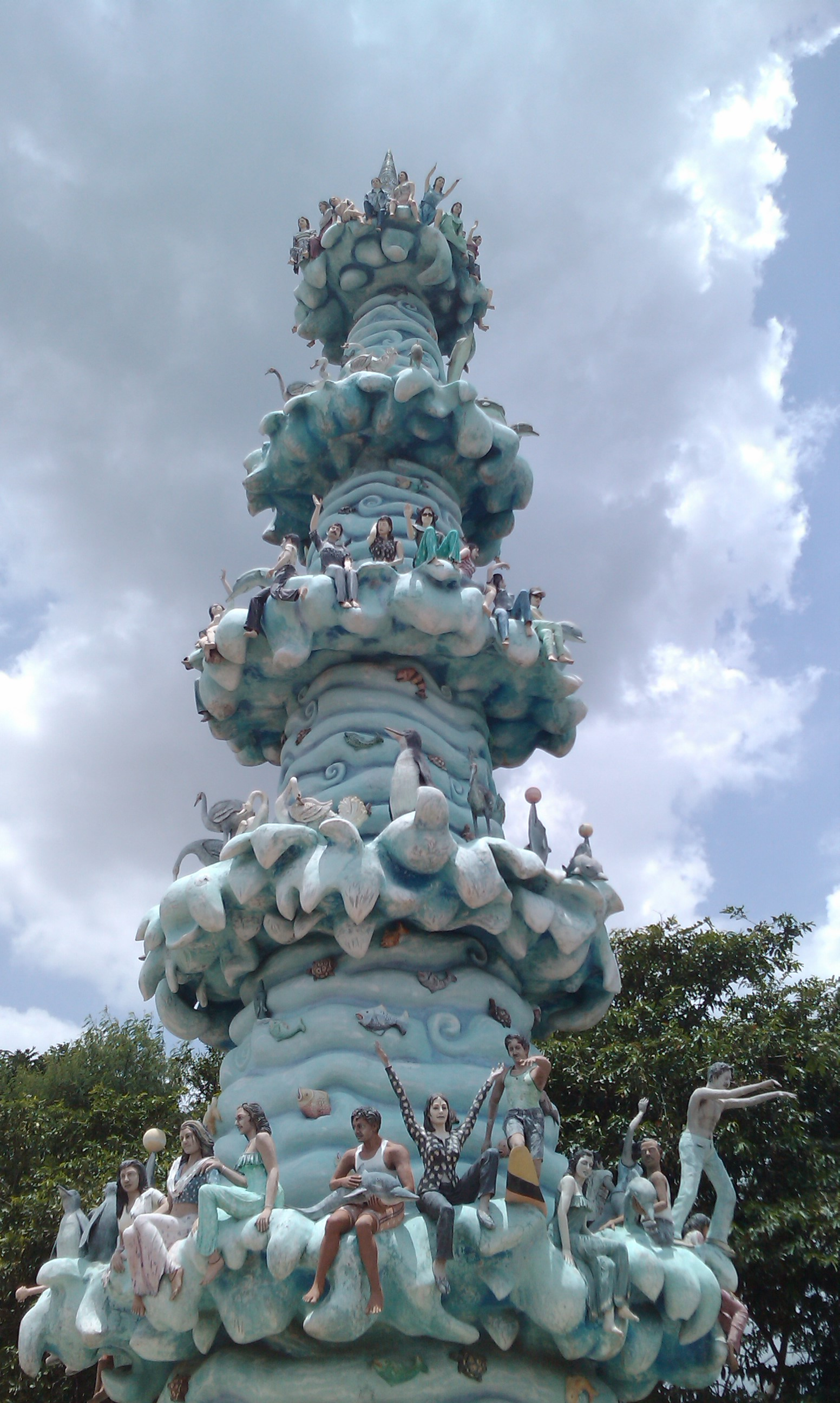 Bhavani Island - Type of a Resort island in the middle of Krishna River